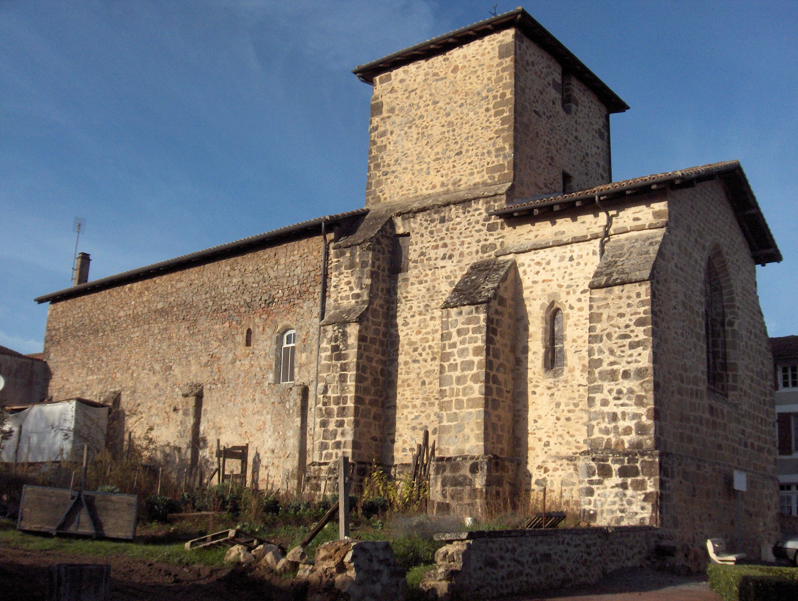 Church of Suris, Charente department, France